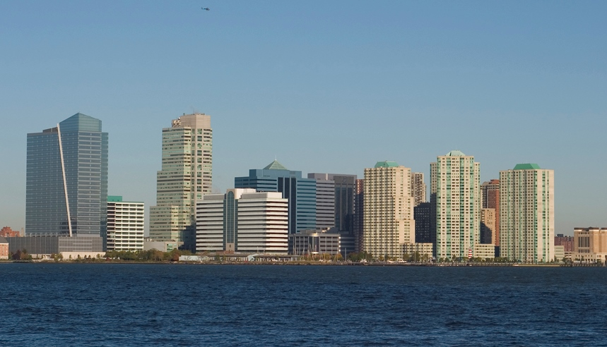 Newport, Jersey City Waterfront, skyline shot from a boat on the Hudson River